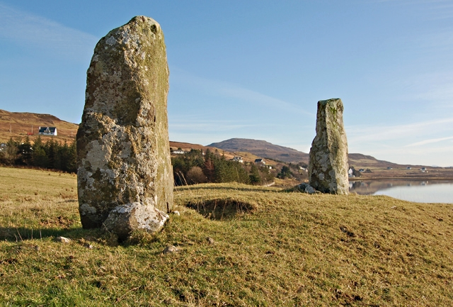 Sornaichean Coir' Fhinn. A closer view of the stones seen in 101097 It is said that these stones were erected here by Fingal and his fellow hunters to suspend a pot in which whole deer were cooked over a fire to make venison stew.